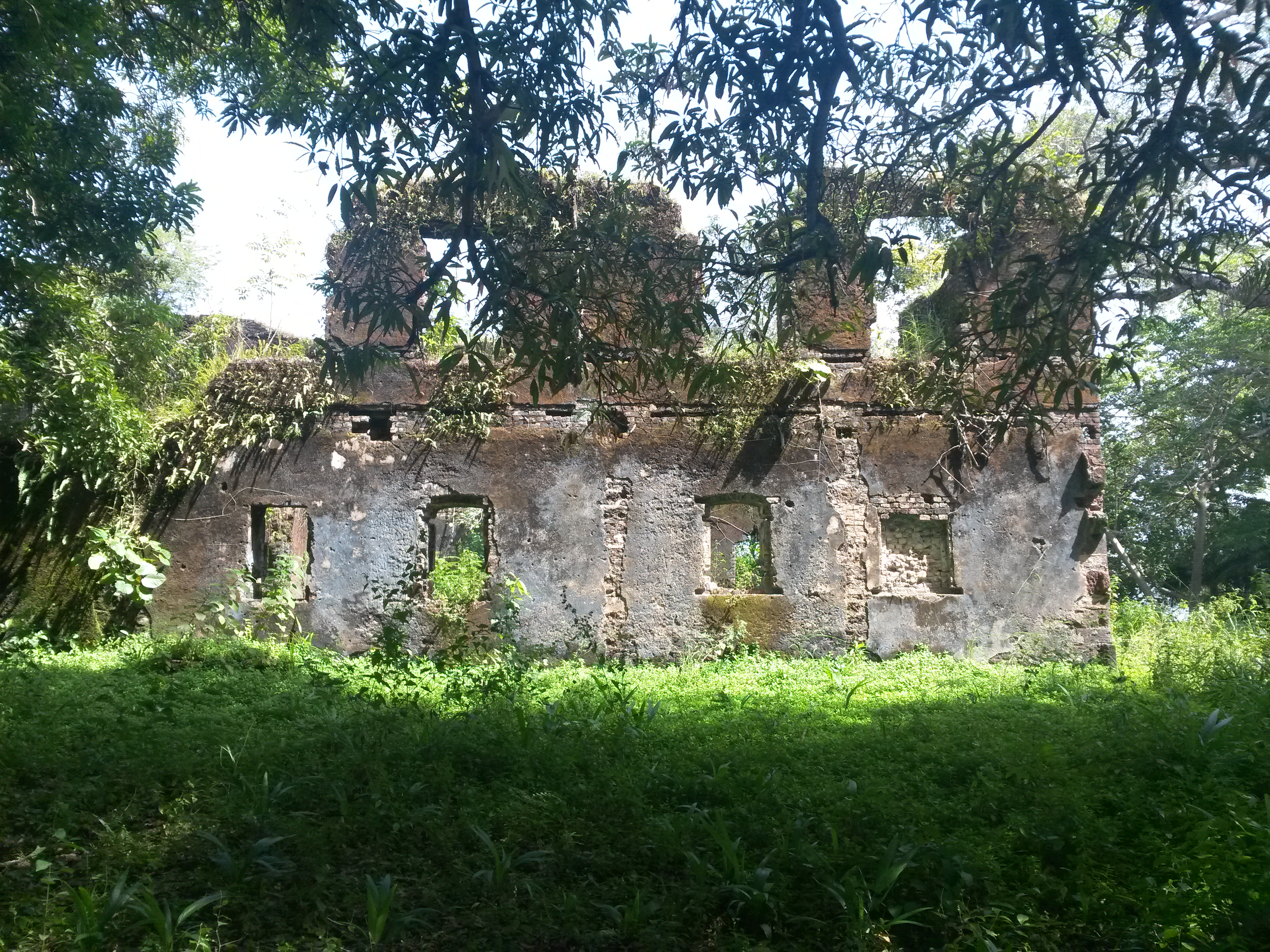 Bunce Island is an island in the Sierra Leone River situated in Freetown Harbour. The island measures houses a castle that was built by a British slave-trading company in c.1670. Tens of thousands of Africans were shipped from here to the North American colonies of South Carolina and Georgia to be forced into slavery, and are the ancestors of many African Americans of the United States.